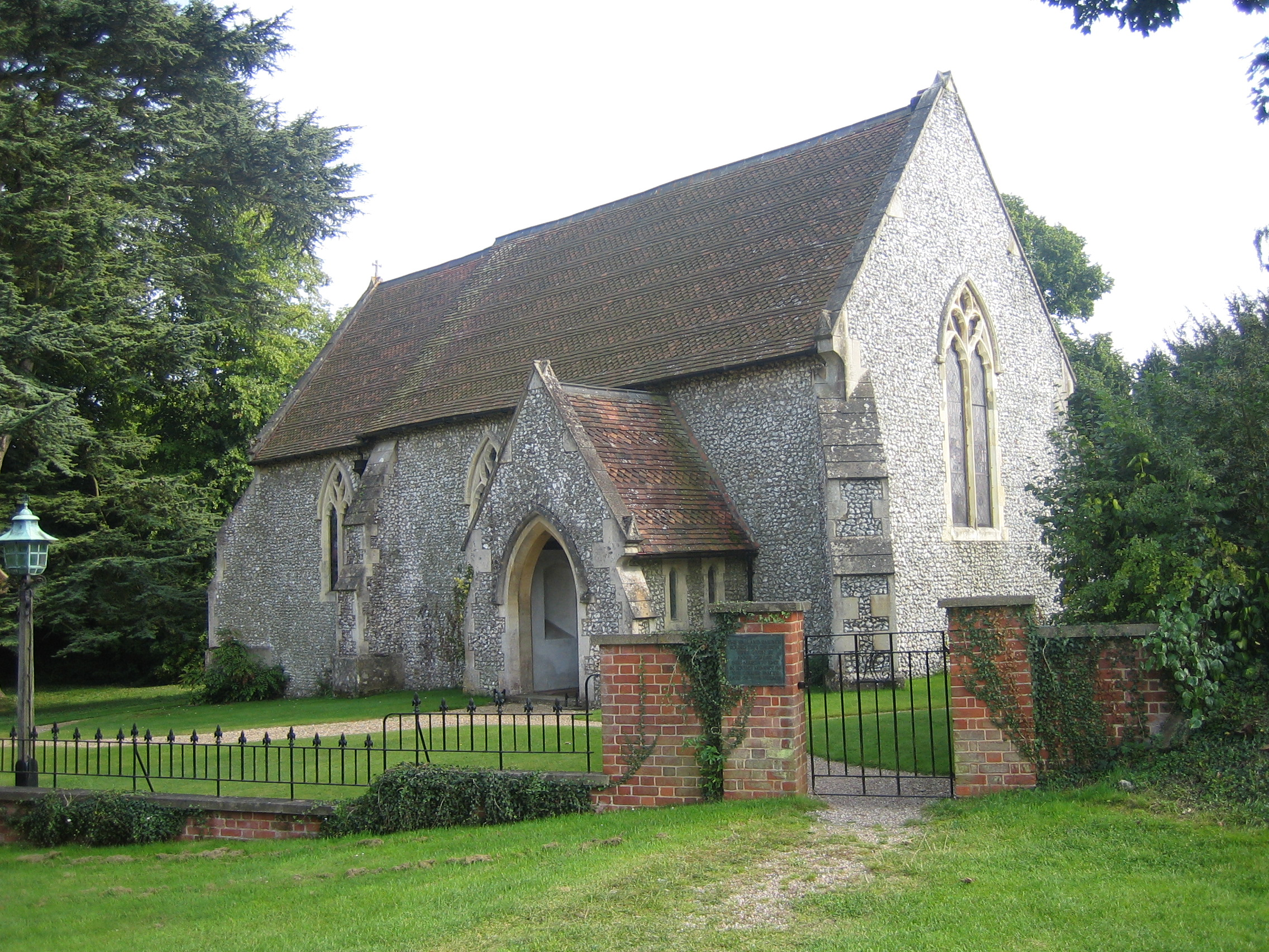 Church of England parish church of St. John the Evangelist, Frieth, Buckinghamshire: view from the northwest.